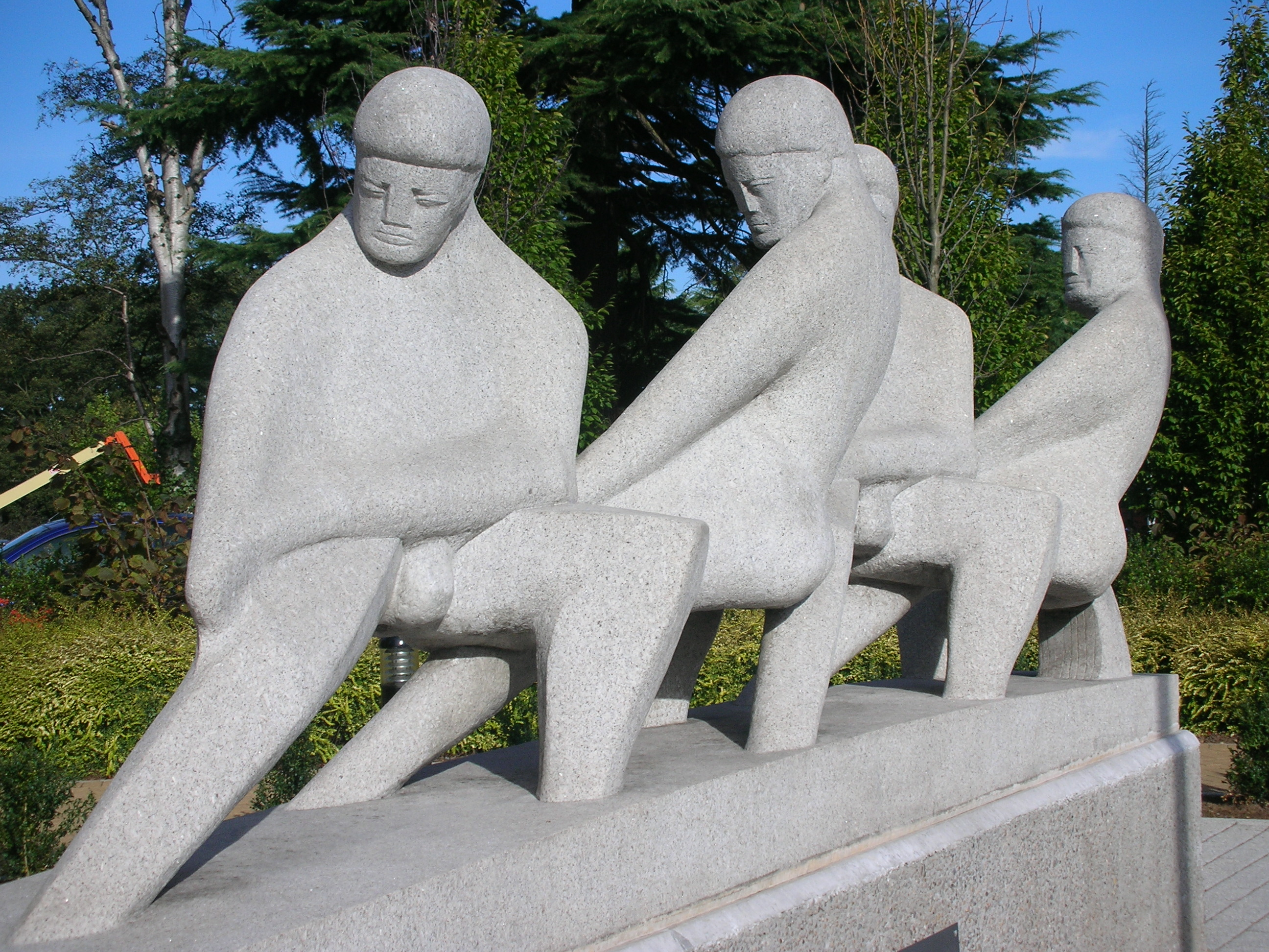 Teamwork, a large monoilithic granite sculpture by David Wynne, 1958. Commissioned for the Taylor Woodrow construction company, England. Moved to the Solihull head office in February 2006. Photographed by me 19 September 2006. Oosoom